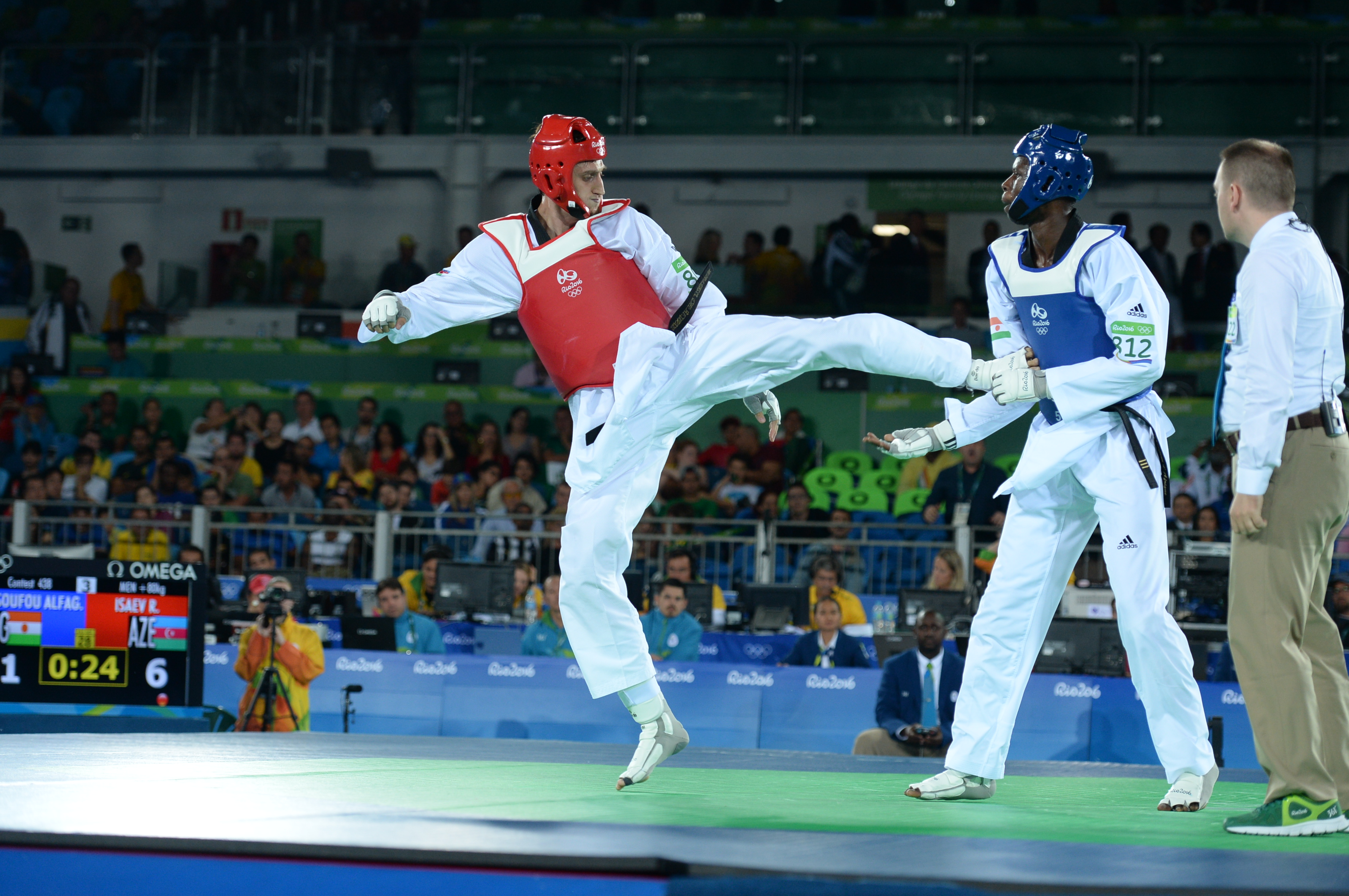 Taekwondo at the 2016 Summer Olympics, Isaev vs Issoufou